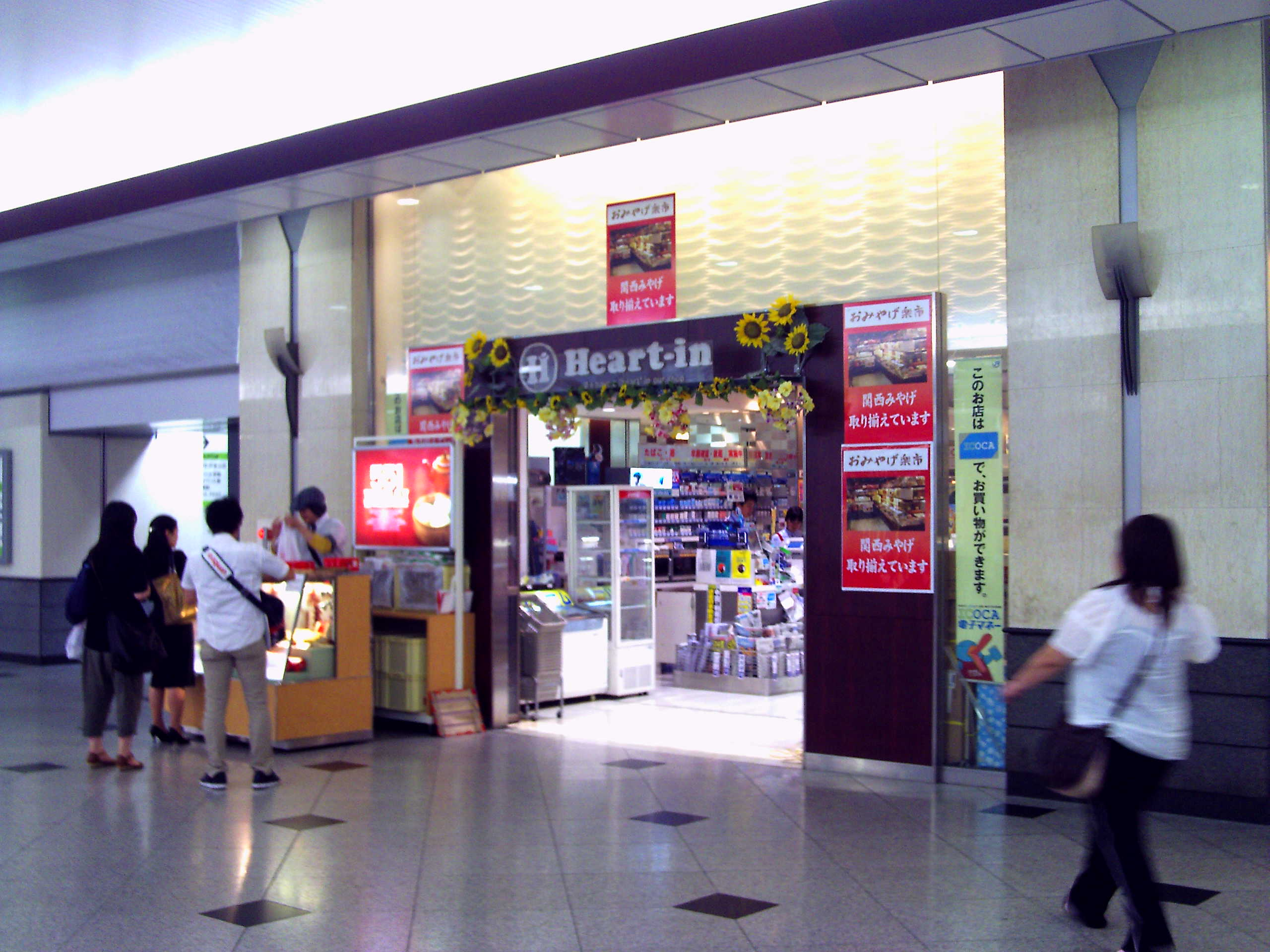 Heart-in store in Osaka Station